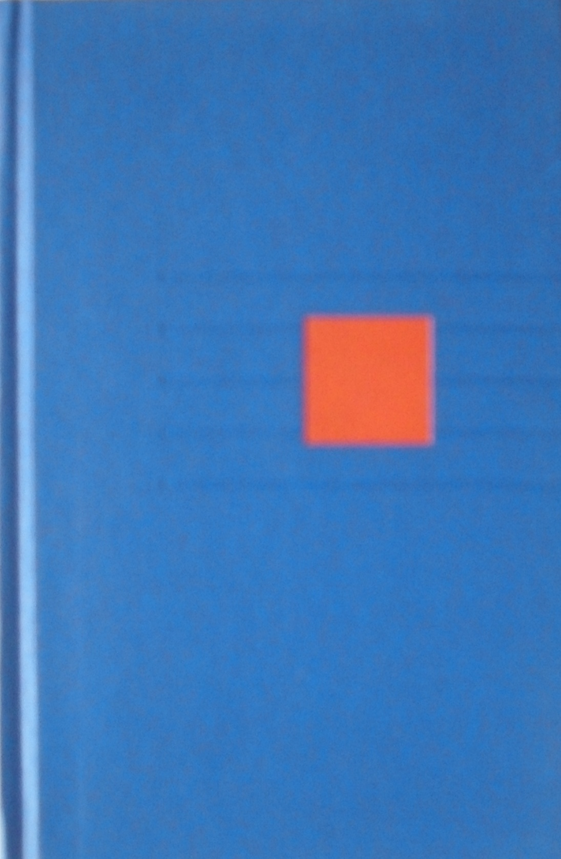 Mennonitisches Gesangbuch (Mennonite Hymnal) in Germany and Switzerland, 2004